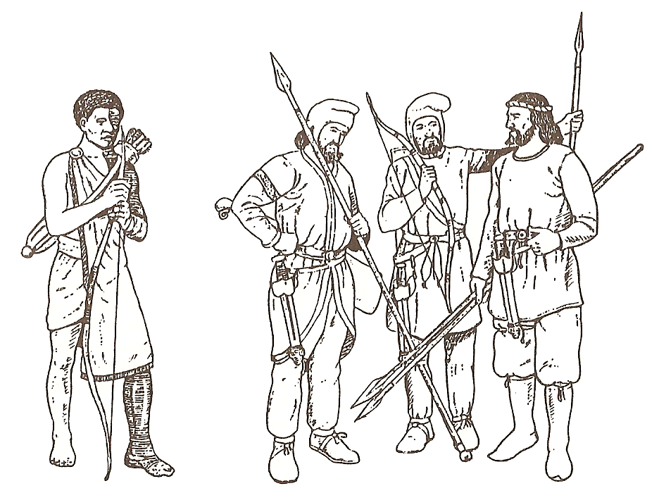 Original description: Soliers of Xerxes army. Reconstruction based on Herodot's descriptions and archaeological findings. From left to right: ethiopian soldier with bow, Khwarezmian infantryman, Bactrian infantryman, cavalryman from Aria.